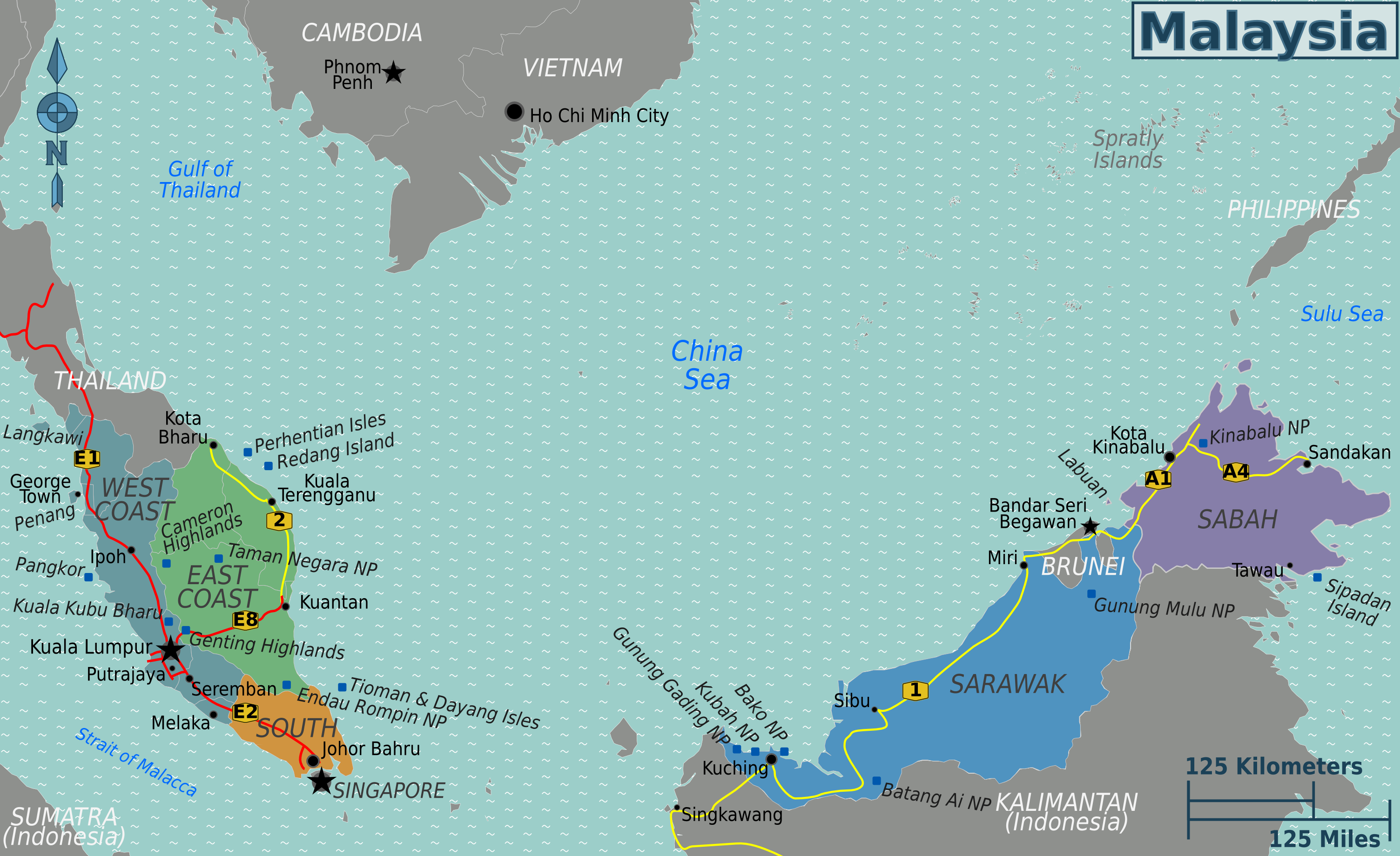 Malaysia regions map for use on Wikivoyage, English version